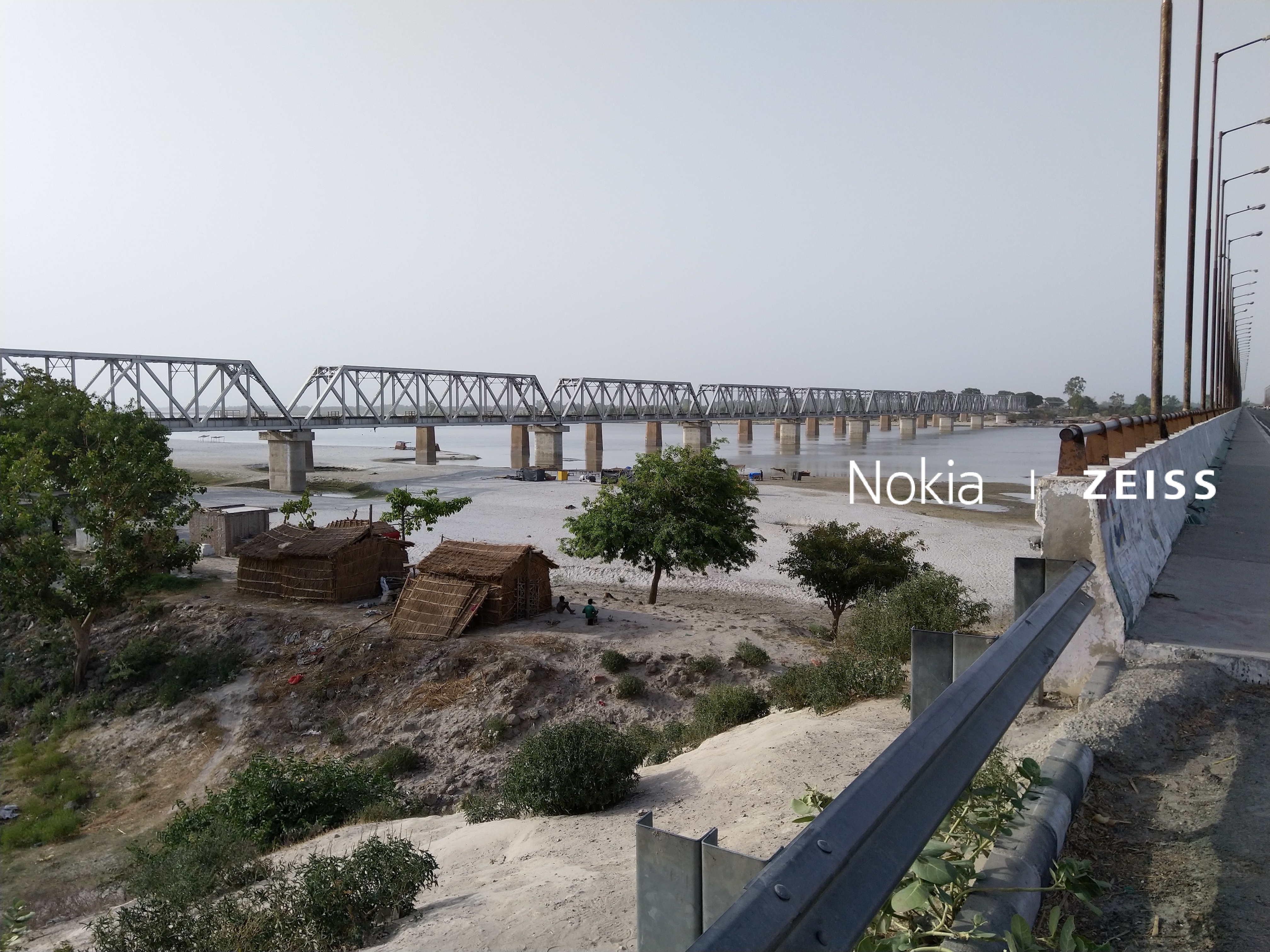 Construction of this bridge has finished the differences and clash of railways and roadways. Previously roadways traffic had to wait for hours for the trains to pass.